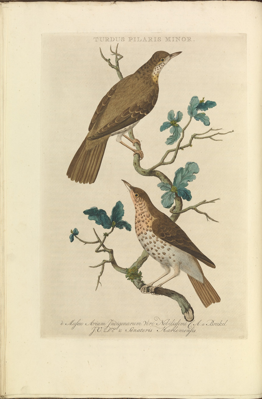 Plate 13 from the Nederlandsche vogelen by Nozeman and Sepp.